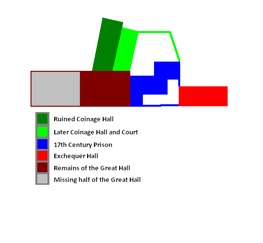 Plan of part of the complex of buildings forming the Duchy or Stannary Palace, Lostwithiel, Cornwall.